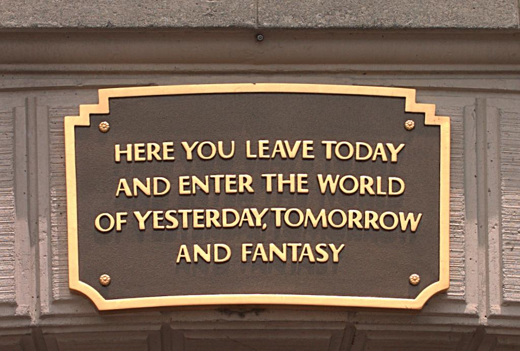 Plaque at the entrance of Disneyland which reads: “ Here you leave today and enter the world of yesterday, tomorrow, and fantasy ”